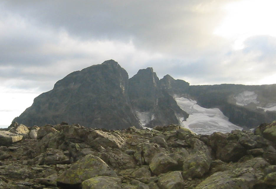 I shot the photo on August 7. 2006 from the Kalvehøgde Massif in Jotunheimen